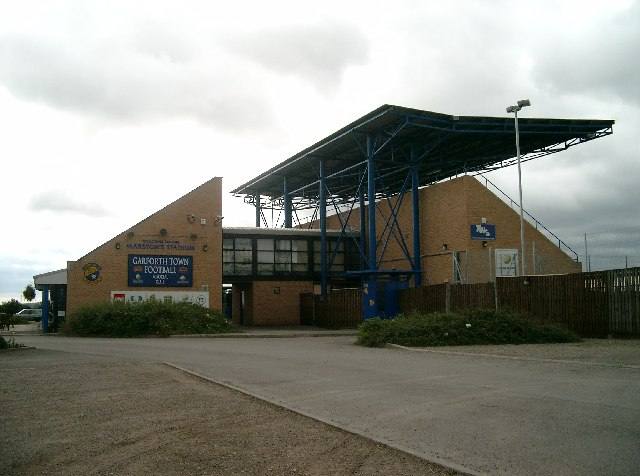 Marston's Stadium, the home ground of Garforth Town F.C.